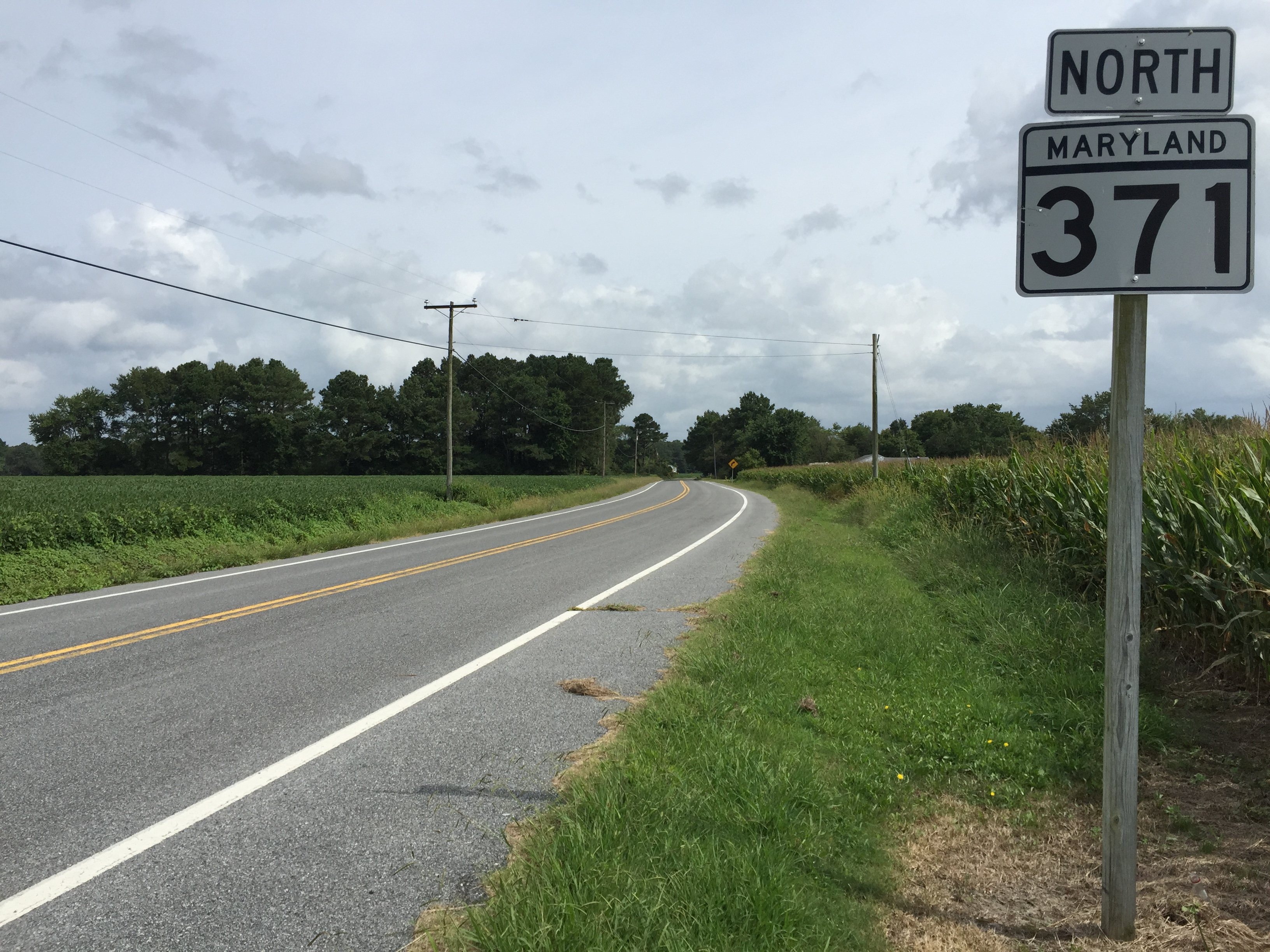 View north along Maryland State Route 371 (Cedar Hall Road) at Pocomoke Beltway just south of Pocomoke City in Worcester County, Maryland